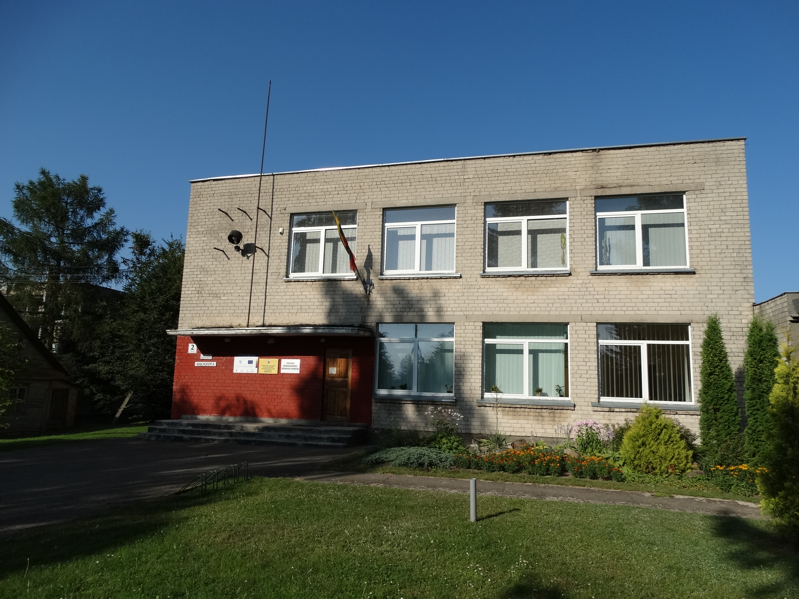 Eldership, Lyduokiai, Ukmergė district, Lithuania